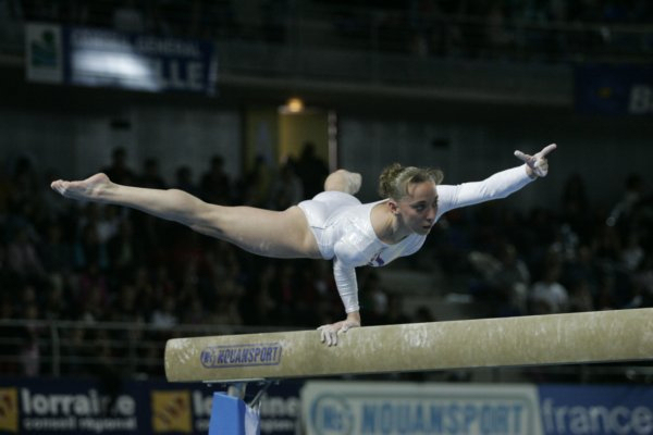 Magaly Hars